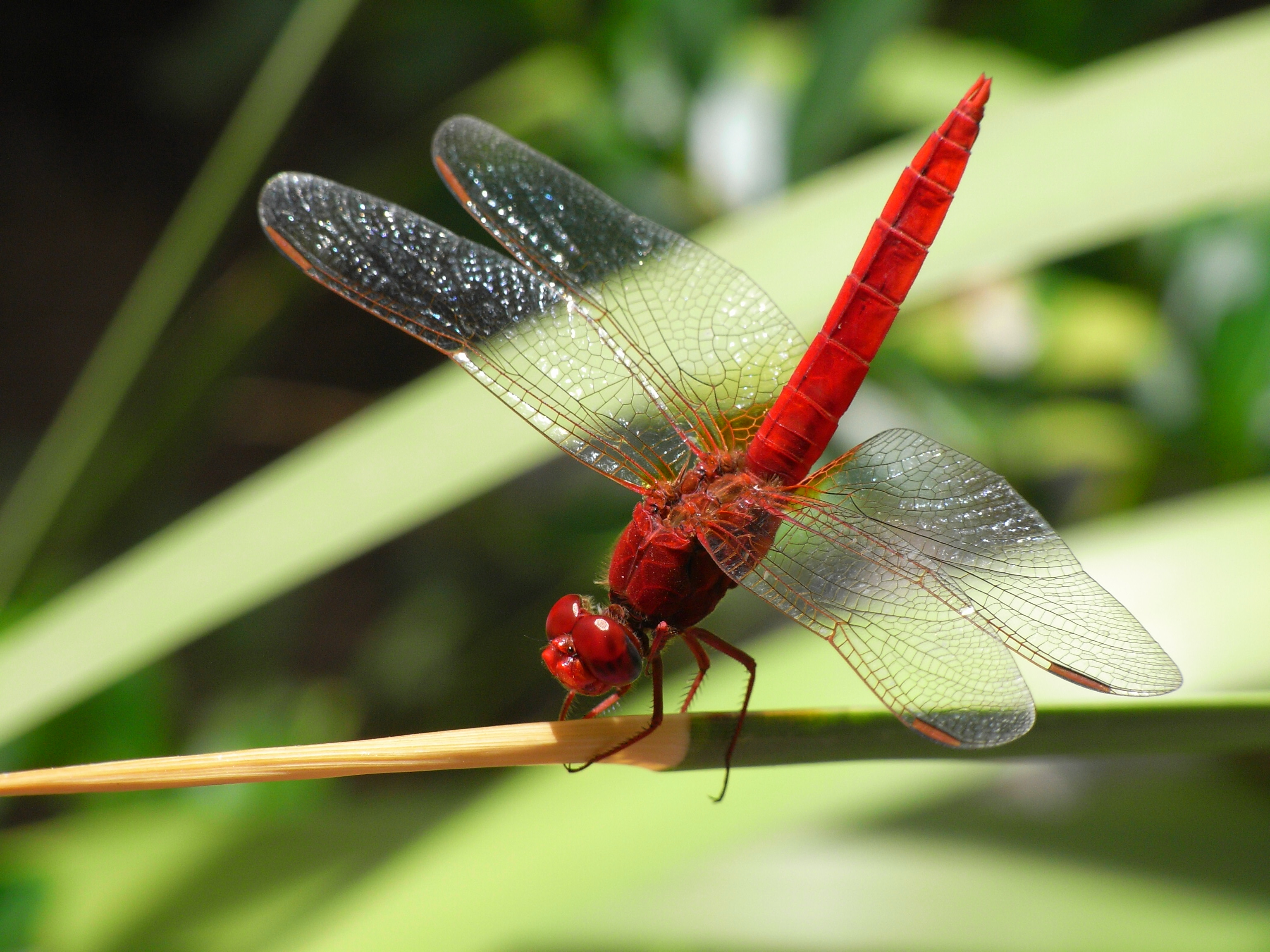 The dragonfly Crocothemis erythraea. Made with Ricoh Caplio R6 macro 200mm